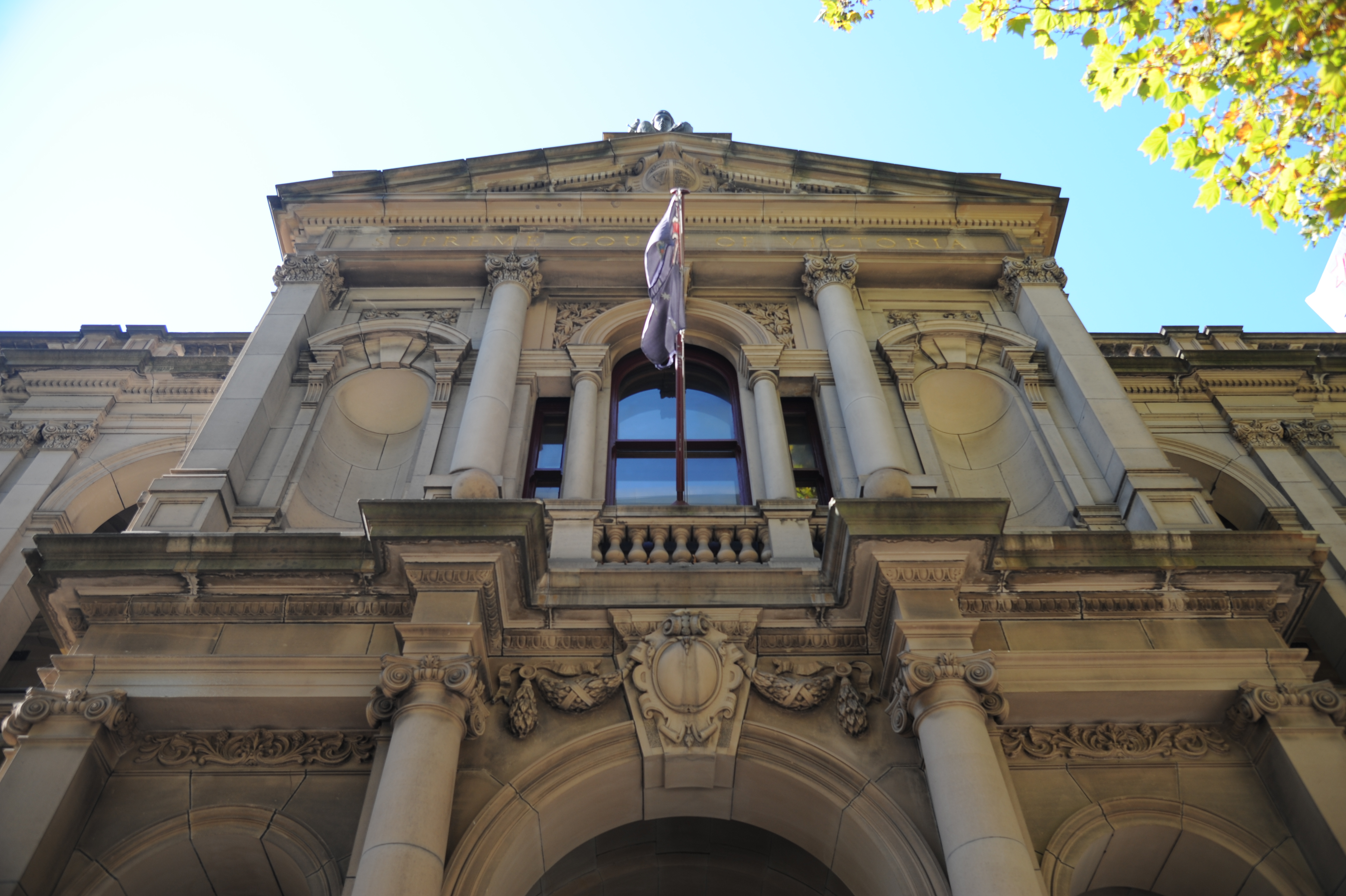 View from the front steps leading up to the main entrance to the Supreme Court of Victoria